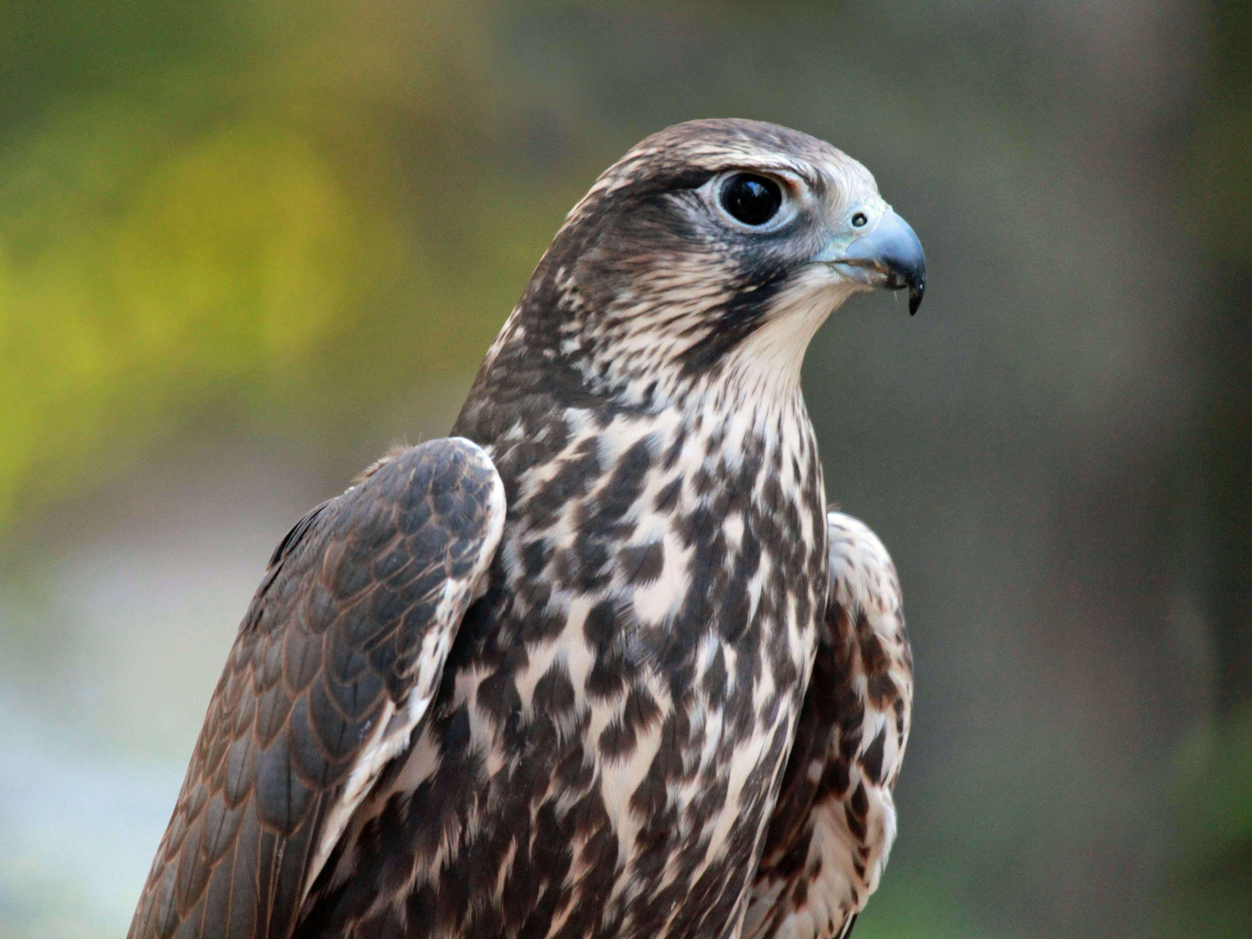 Saker Falcon (Falco cherrug) - Carolina Raptor Center at Huntersville, North Carolina